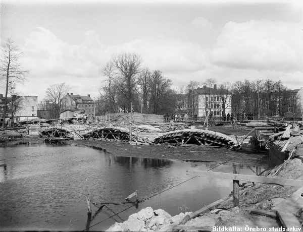 The bridge "Vasabron" under construction (Örebro, Sweden)